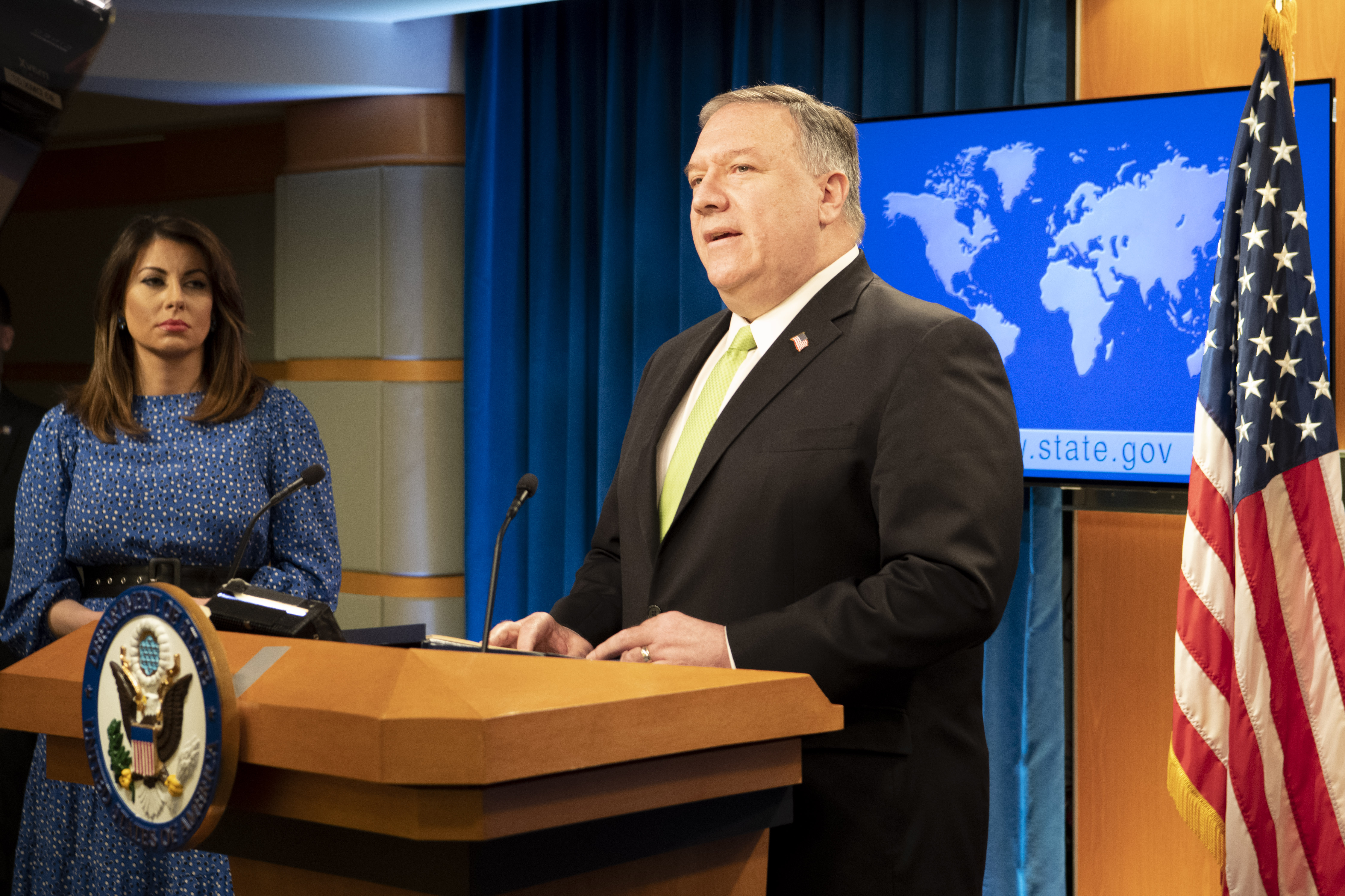 U.S. Secretary of State Michael R. Pompeo delivers remarks to the media in the Press Briefing Room, at the Department of State in Washington, D.C., on May 20, 2020. [State Department Photo by Freddie Everett / Public Domain]